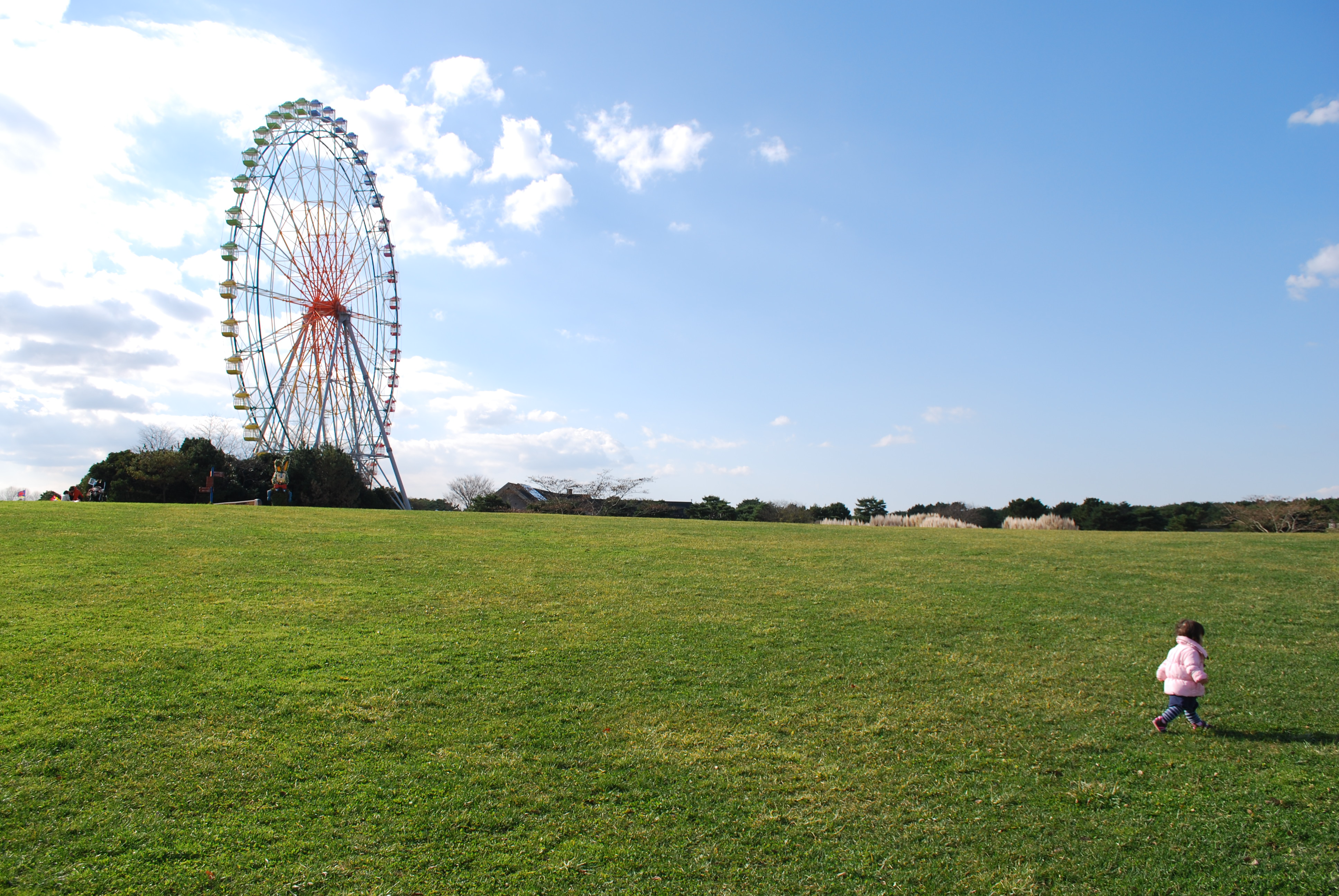 Ferris wheel at the Hitachi Seaside Park in Hitachinaka, Ibaraki, Japan